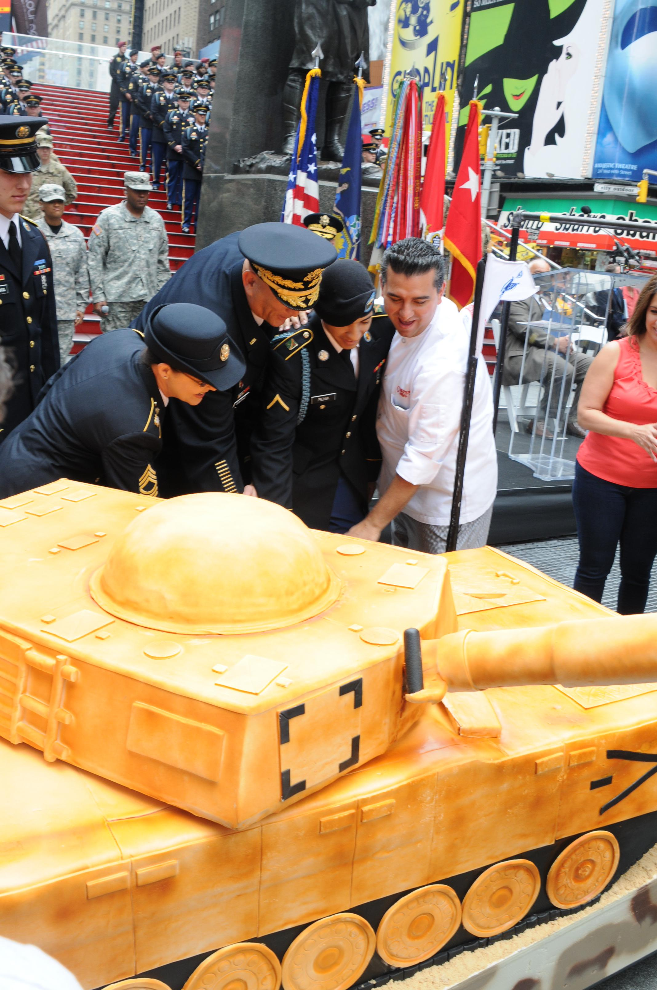 Gen. Raymond Odierno, Army Chief of Staff, cuts the Army Birthday cake in celebration of the Army's 237th birthday with the youngest Soldier in attendance Pvt. Chayanne Jose Pena of the 69th New York National Guard and Buddy Valastro, the founder of the Cake Boss television show at Duffy Square, New York City, June 14. "Our freedoms and liberties are unique here and our Army protects those liberties, we are here for the American people," said Odierno.